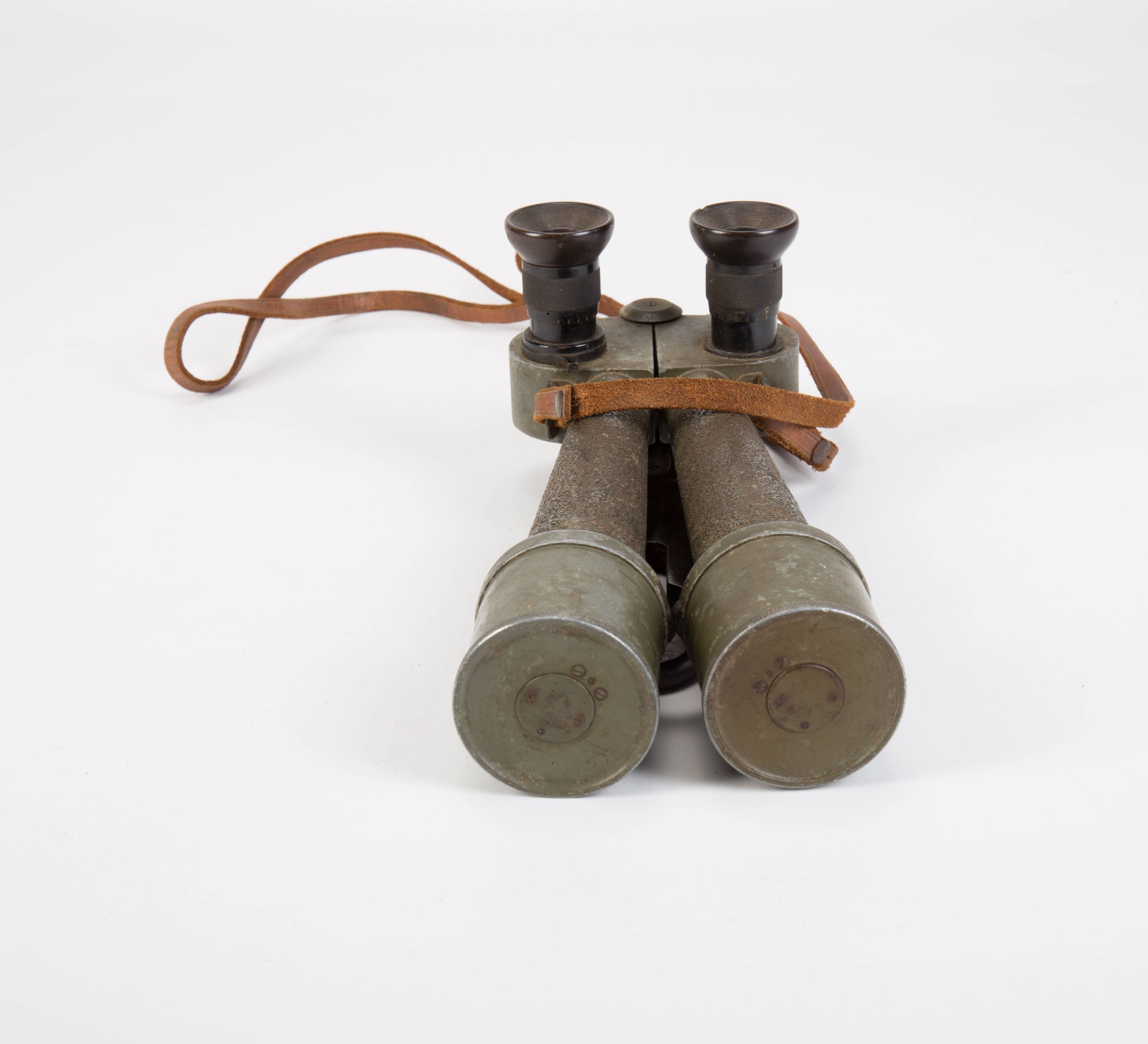 Carl Zeiss binocular trench periscope, WW1 Trench periscope used by Major General Sir William Sinclair-Burgess (AIF) Carl Zeiss binocular trench periscope metal; two eyepieces measurements- 250mm x 110mm x 80mm markings- CARL ZEISS - JENA